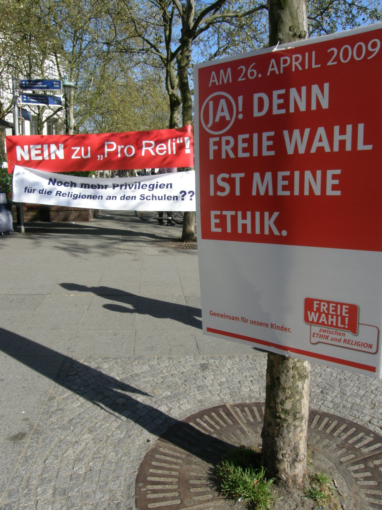 Advertising posters for the "Pro Reli" referendum 2009 in Berlin